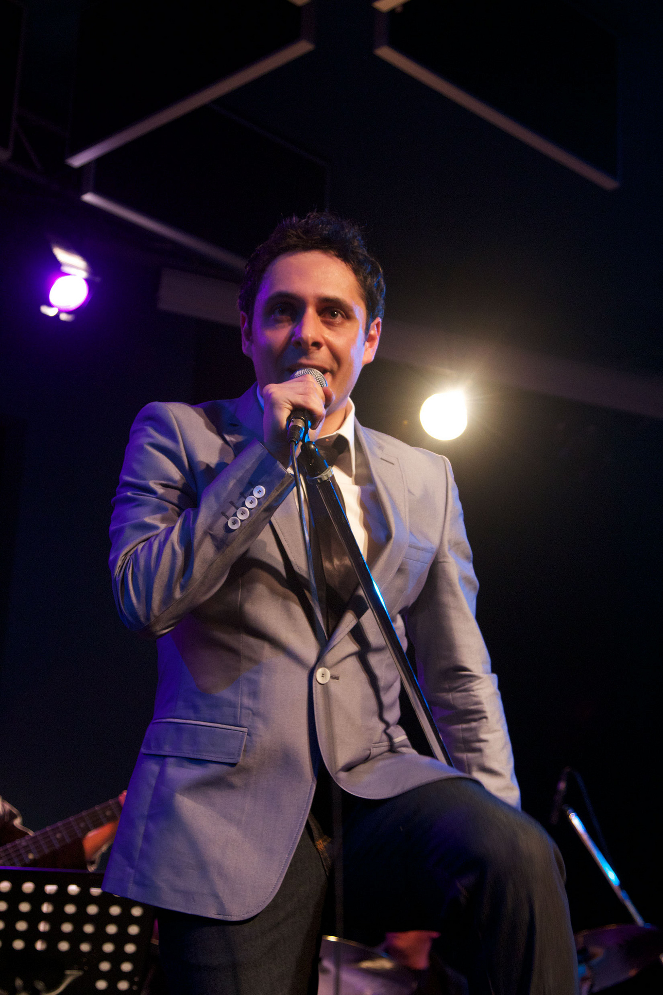 Matteo Brancaleoni live at the Blue Note Milan, 2011